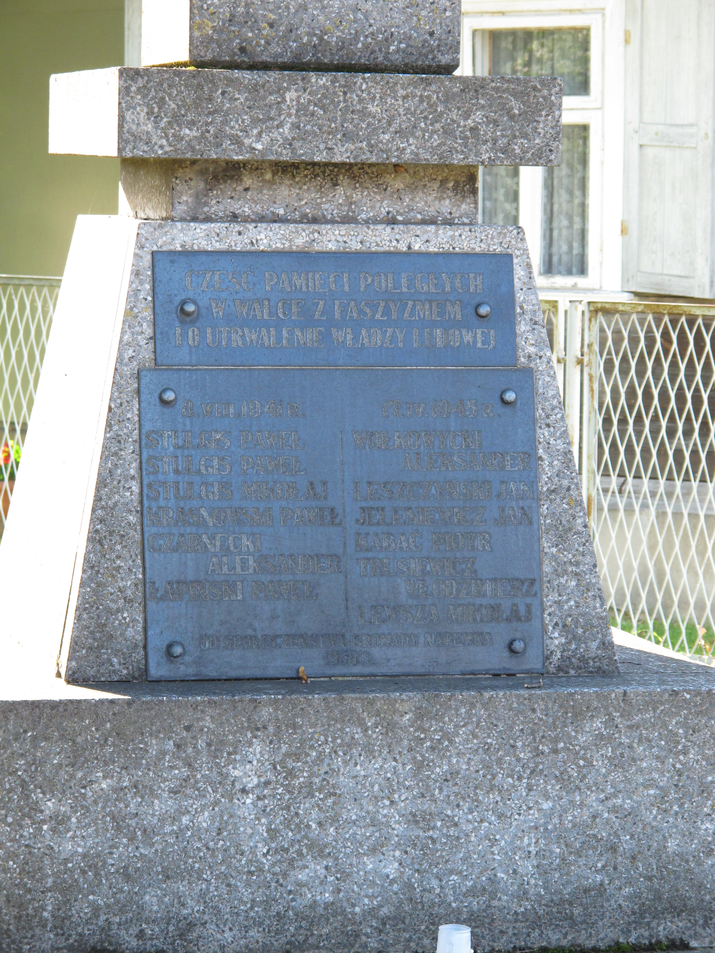 Monument to those who died in the struggle against fascism and to consolidate people's power by Narewka and Hajnowska streets in Narewka, gmina Narewka, podlaskie, Poland